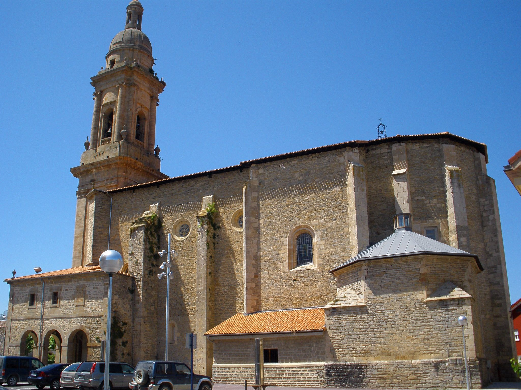 Iglesia parroquial de San Blas, en Alegría de Álava (País Vasco, España)